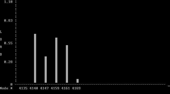 A six node CHAOS/openMosix cluster: The mosmon view with four process' load, launched from node two